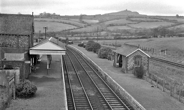 Brentor Station. View SW, towards Plymouth; ex-London & South Western, Exeter - Okehampton - Plymouth main line. The station was closed completely, along with the line Okehampton - Bere Alston, on 6/5/68